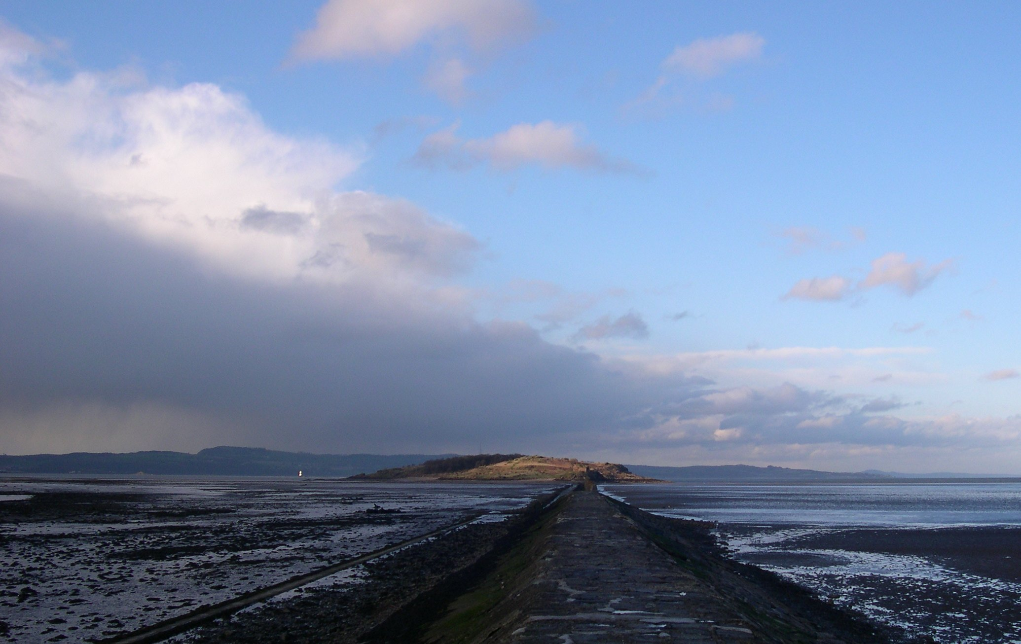 Cramond Island seen from the shore at low tide.